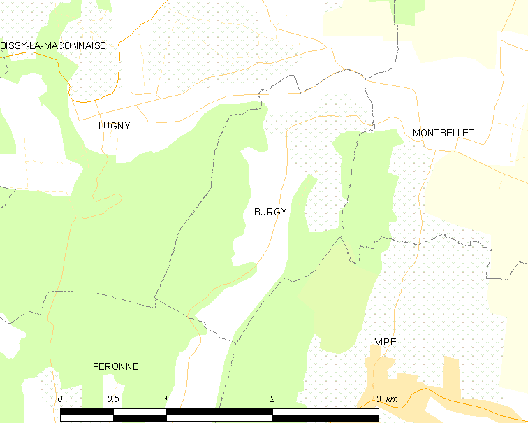 Map of French municipality